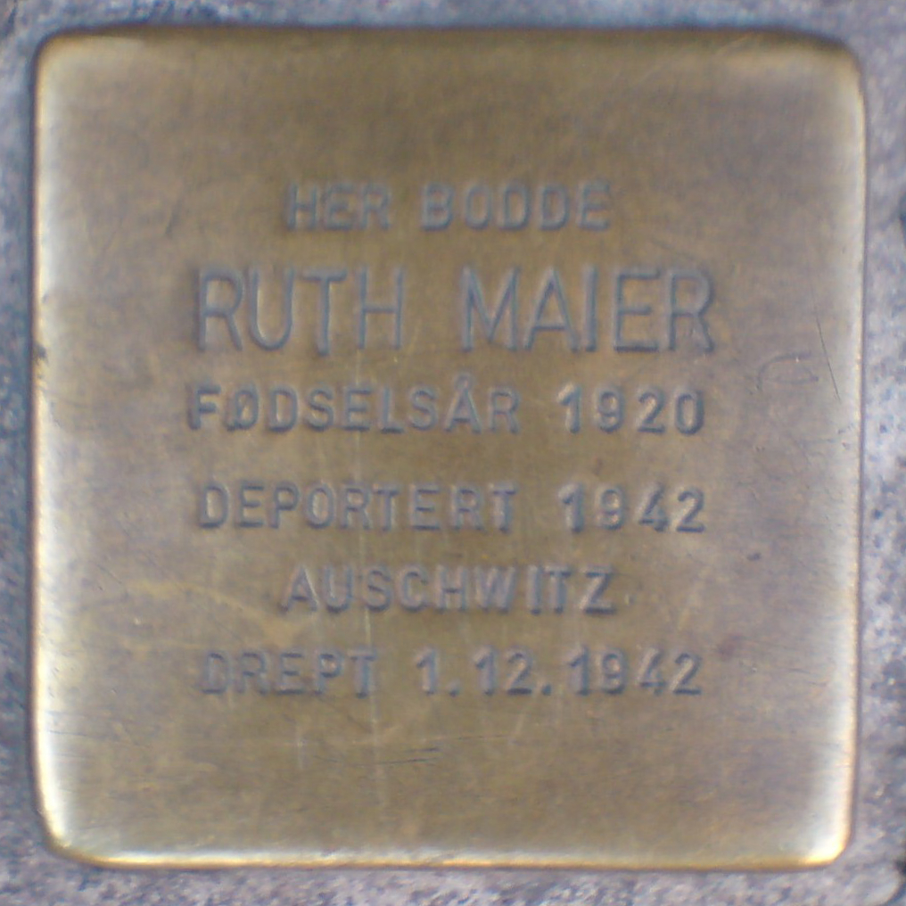 "Stolperstein" in pavement at Dalsbergstien 3, Oslo, in memory of Ruth Maier. Inscription reads (translated): "Here lived Ruth Maier, born 1920, deported 1942, Auschwitz, killed December 1, 1942"